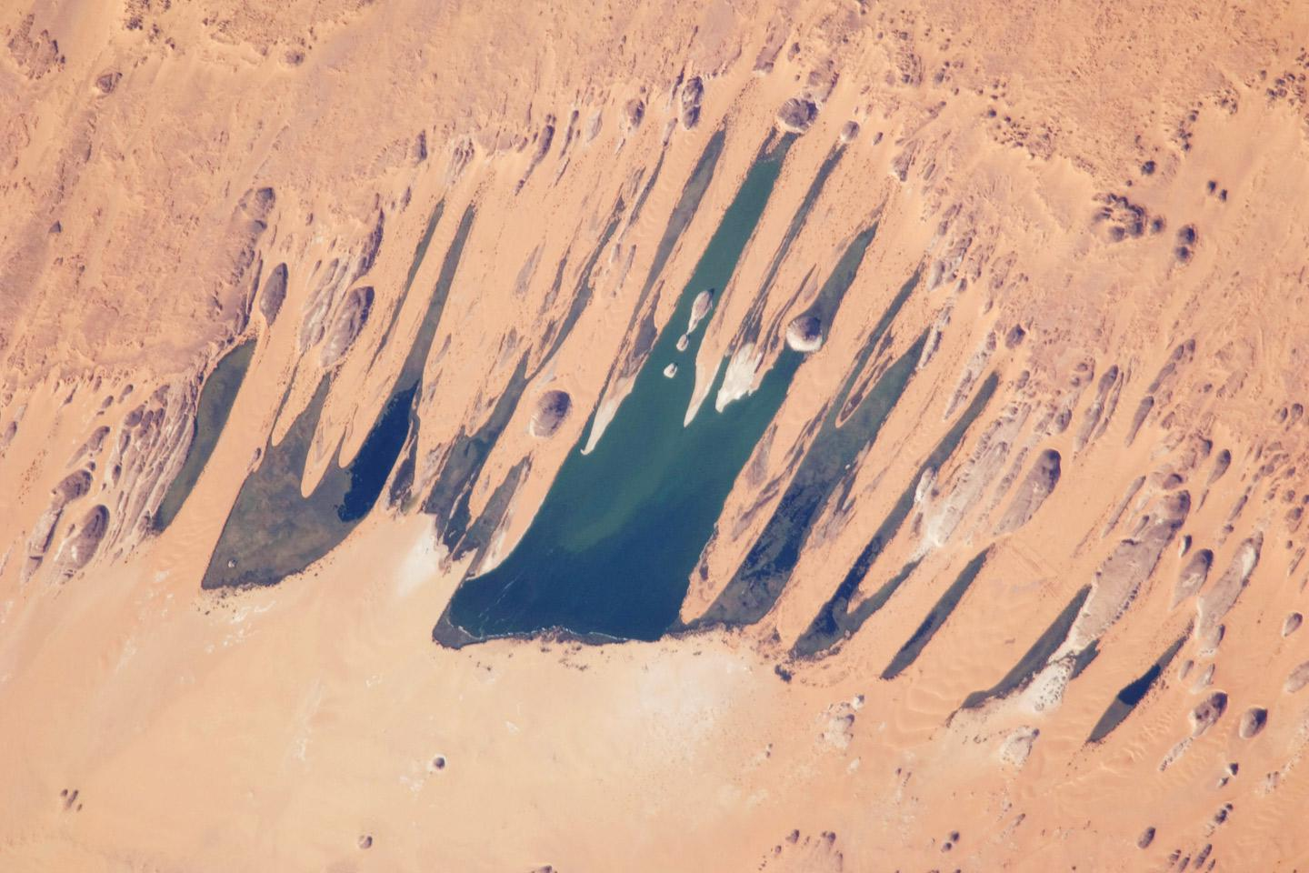 This astronaut photograph features one of the largest of a series of ten mostly fresh water lakes in the Ounianga Basin in the heart of the Sahara Desert of northeastern Chad.